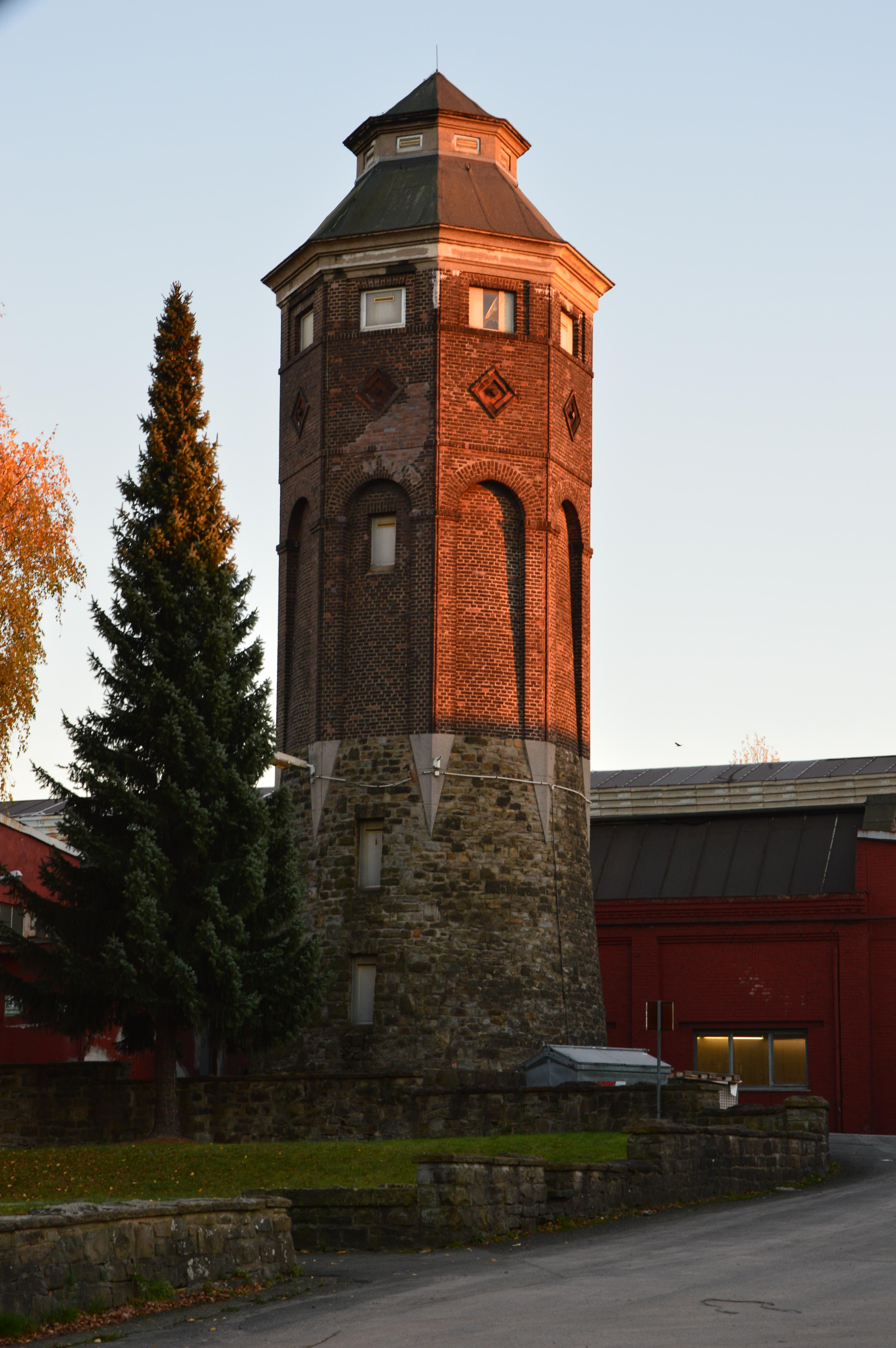 water tower Wasserturm Luhn & Pulvermacher